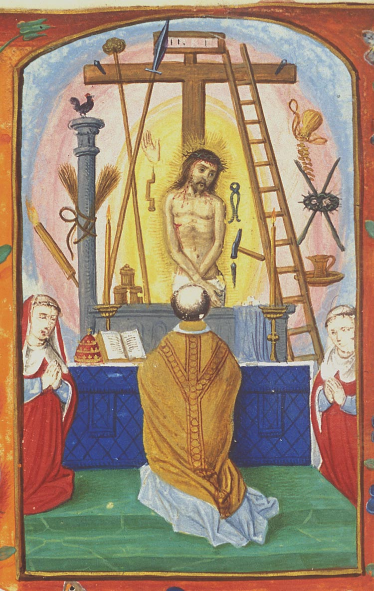 Illustration from Book of hours, the subject is the Mass of Saint Gregory